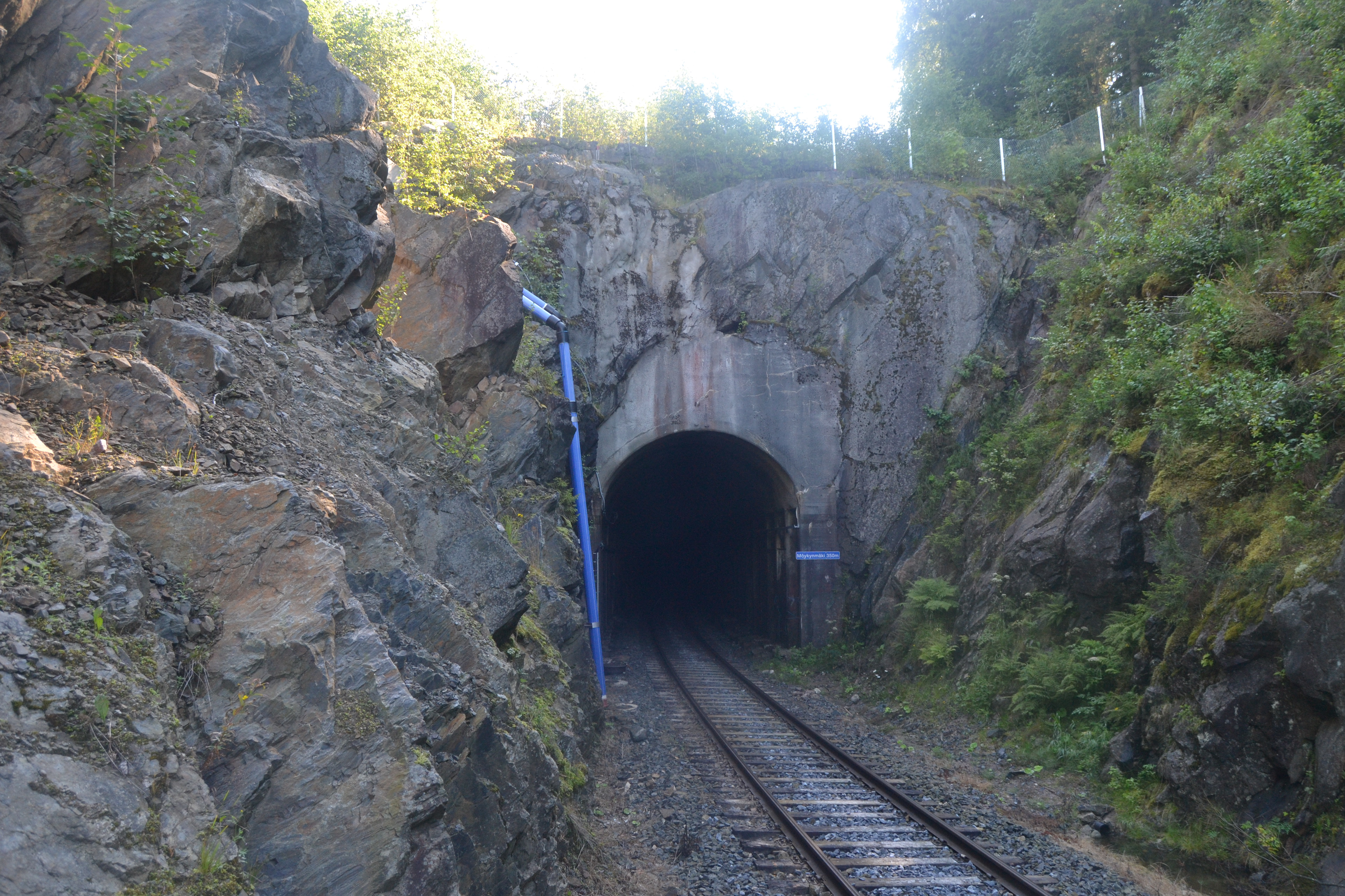 Möykynmäki tunnel in Jyväskylä, Finland